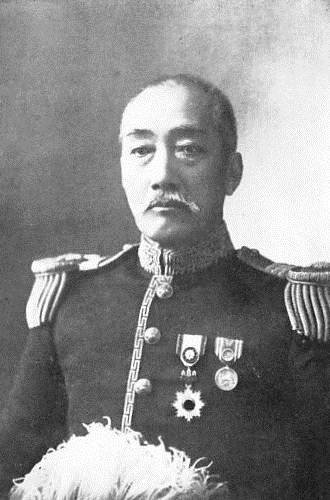 Takateru Ono